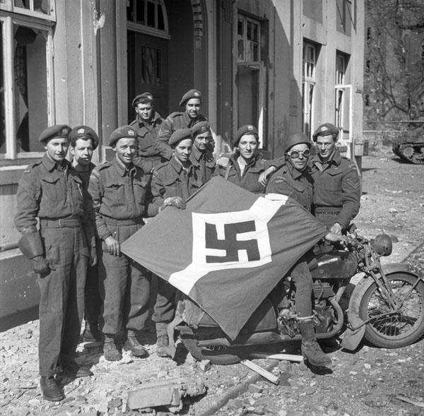 Personnel of The Lake Superior Regiment (Motor) with a captured German flag, Friesoythe, Germany, 16 April 1945.